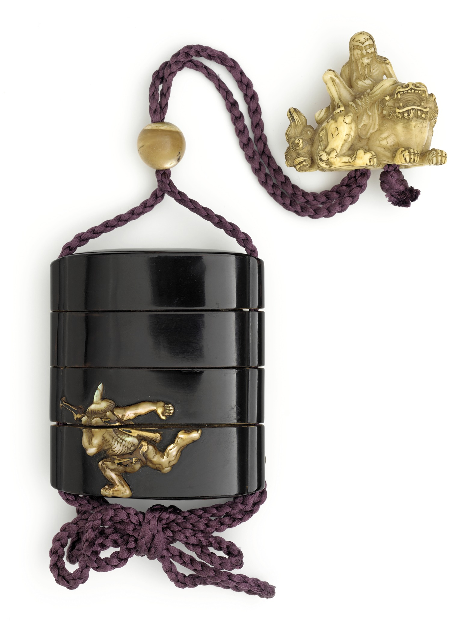 Japan, 18th century Costumes; Accessories Inrō: lacquer on substrate with mother-of-pearl inlays, pewter; Ojime: mother-of-pearl; Netsuke: marine ivory Inrō: 2 5/8 x 2 1/4 x 7/8 (6.5 x 5.7 x 2.2 cm); Ojime: 1/2 x 1/2 in. (1.3 x 1.3 cm); Netsuke: 1 7/8 x 1 5/8 x 1 in. (3.6 x 4.1 x 2.4 cm) Raymond and Frances Bushell Collection (AC1998.249.313) Japanese Art